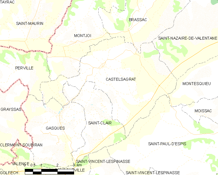 Map of French municipality Castelsagrat